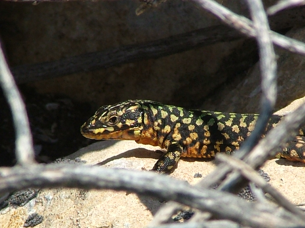 Podarcis filfolensis generalensis photo by Arnold Sciberras